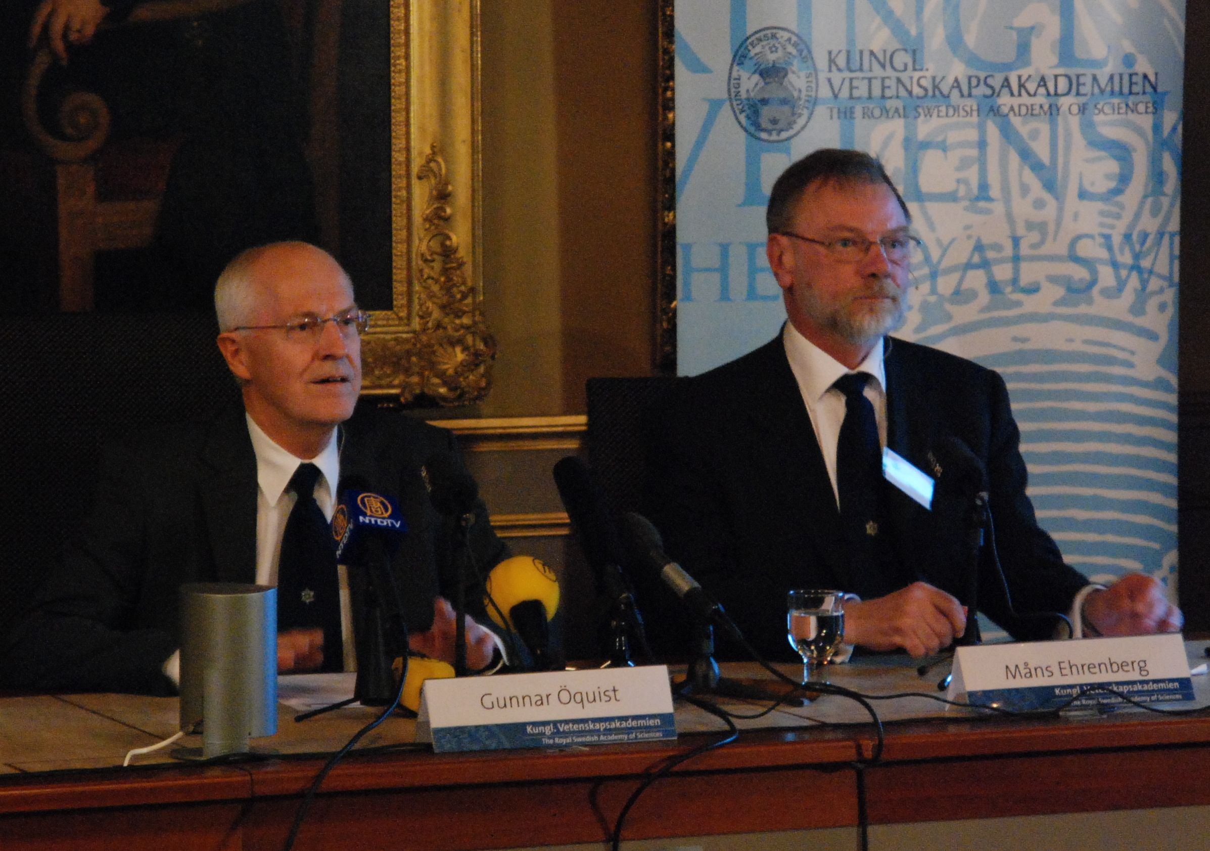 News Conference: Announcement of the Laureates of the Nobel Prize in Chemistry 2008 at the Session Hall of the Swedish Academy of Sciences; Professor Gunnar Öquist, Permanent Secretary of the Swedish Academy of Sciences; Prof. Måns Ehrenberg, Nobel Comittee for Chemistry